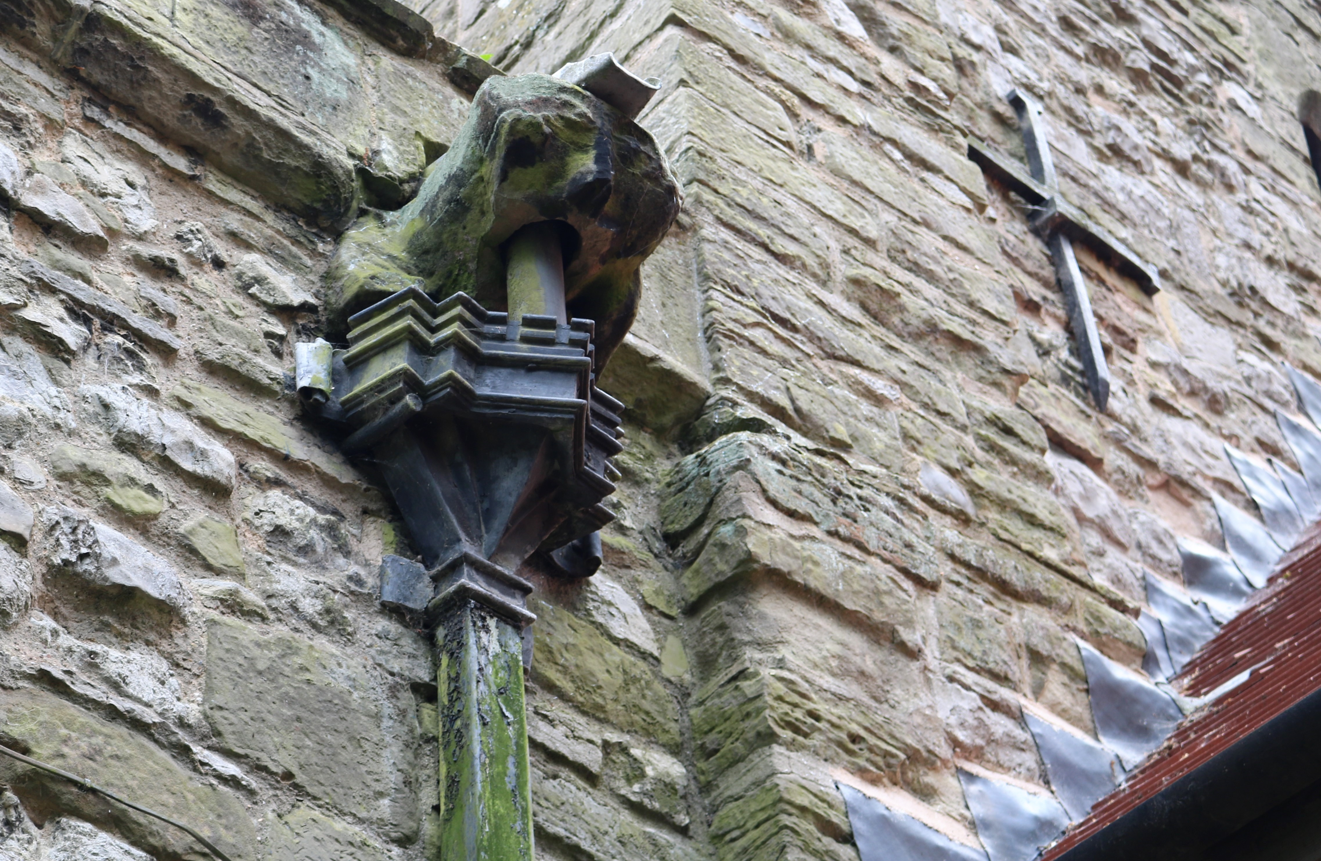 The gargoyle on the western part of the north-chancel wall at St James' Church in Normanton on Soar.